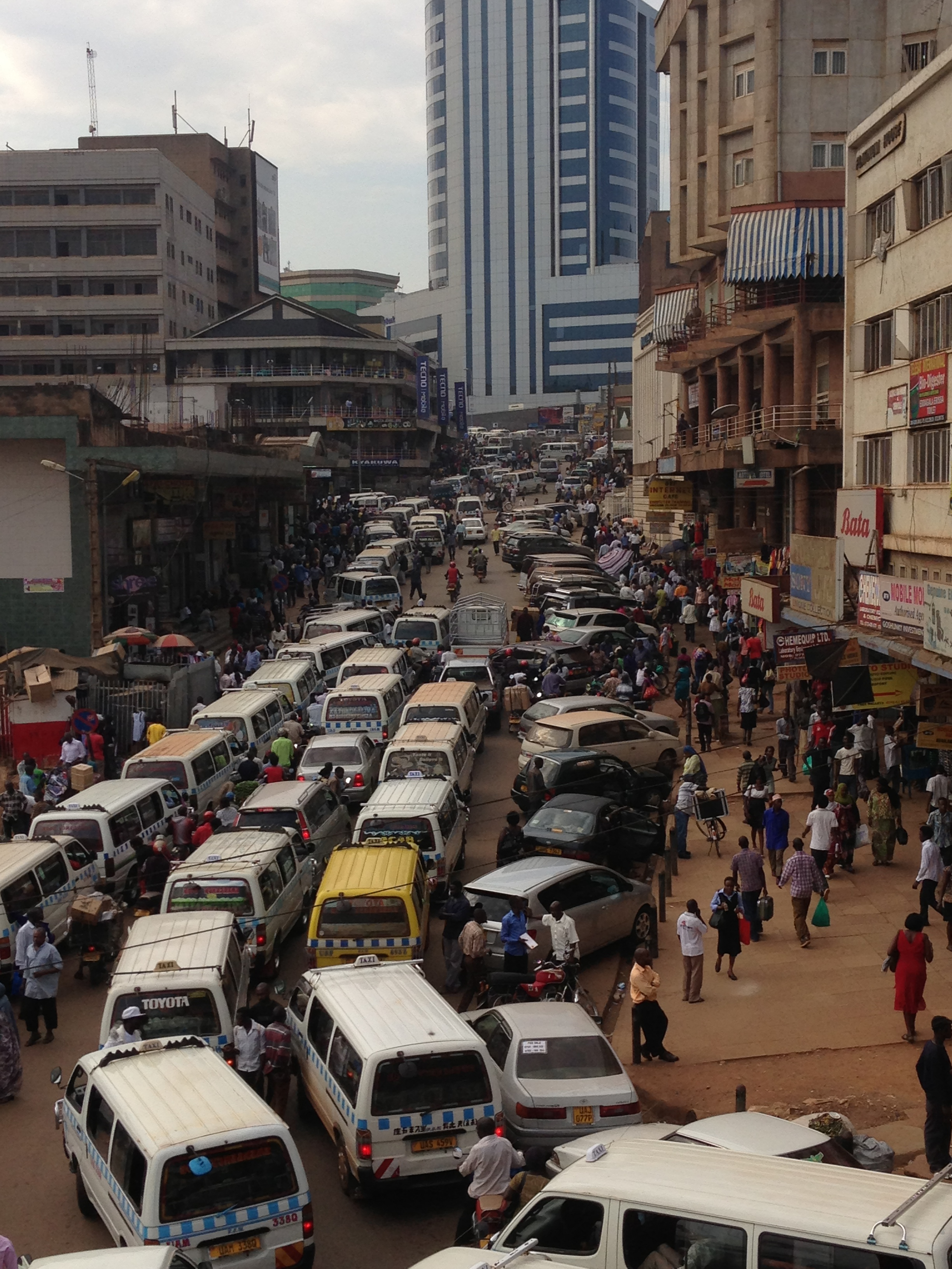 Interviews and focus groups - 2013 Wikipedia Zero Study